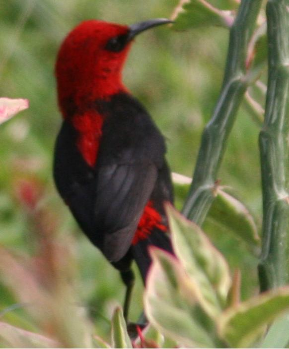 Cardinal Myzomela (Myzomela cardinalis tenuis), Espiritu Santo, Vanuatu